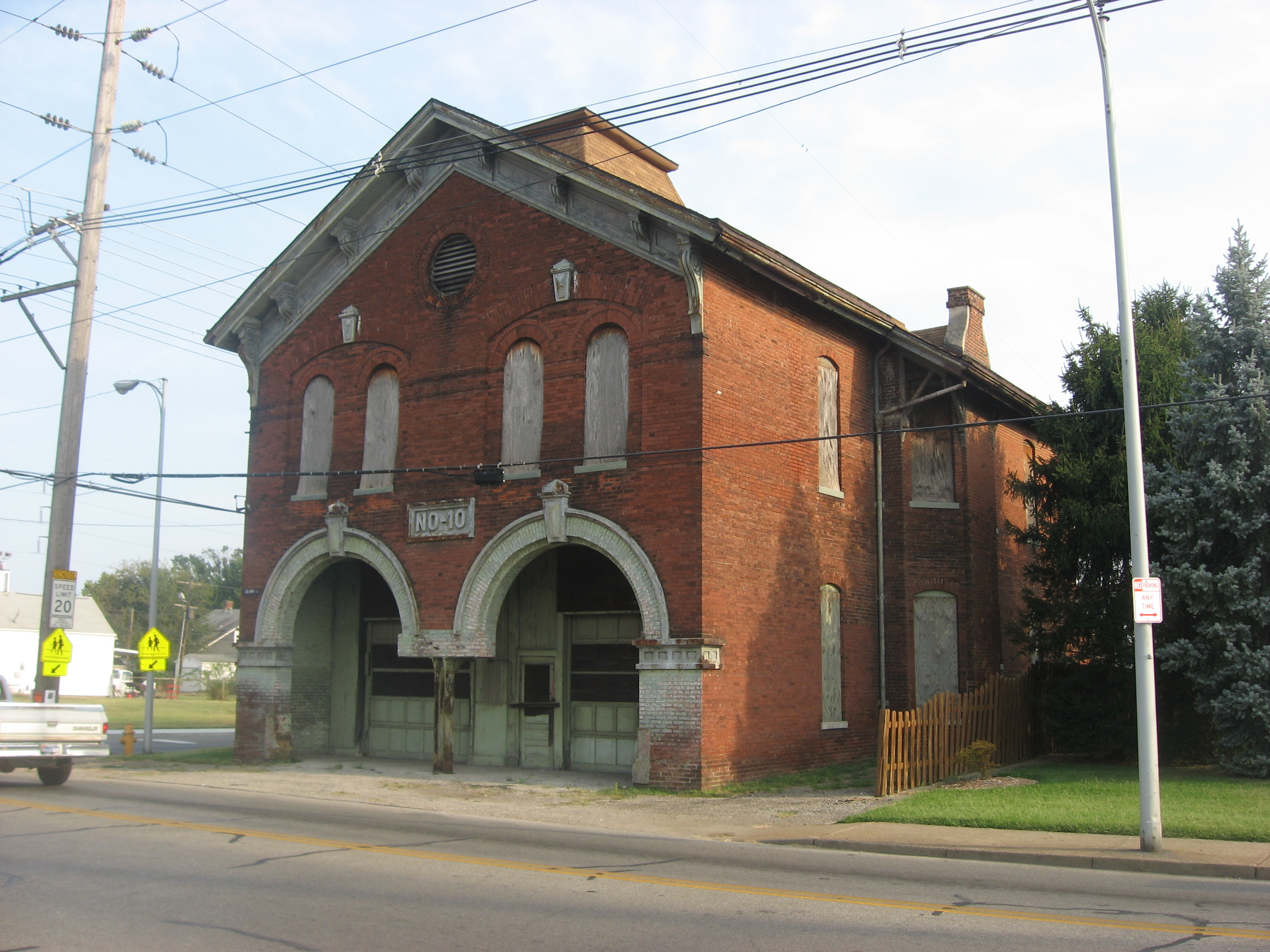 Front and western side of the old Hose House No. 10, located at 119 E. Columbia Street in Evansville, Indiana, United States. Built in 1888, it is listed on the National Register of Historic Places.